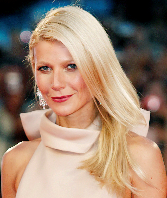 Gwyneth Paltrow at the 2011 Venice Film Festival